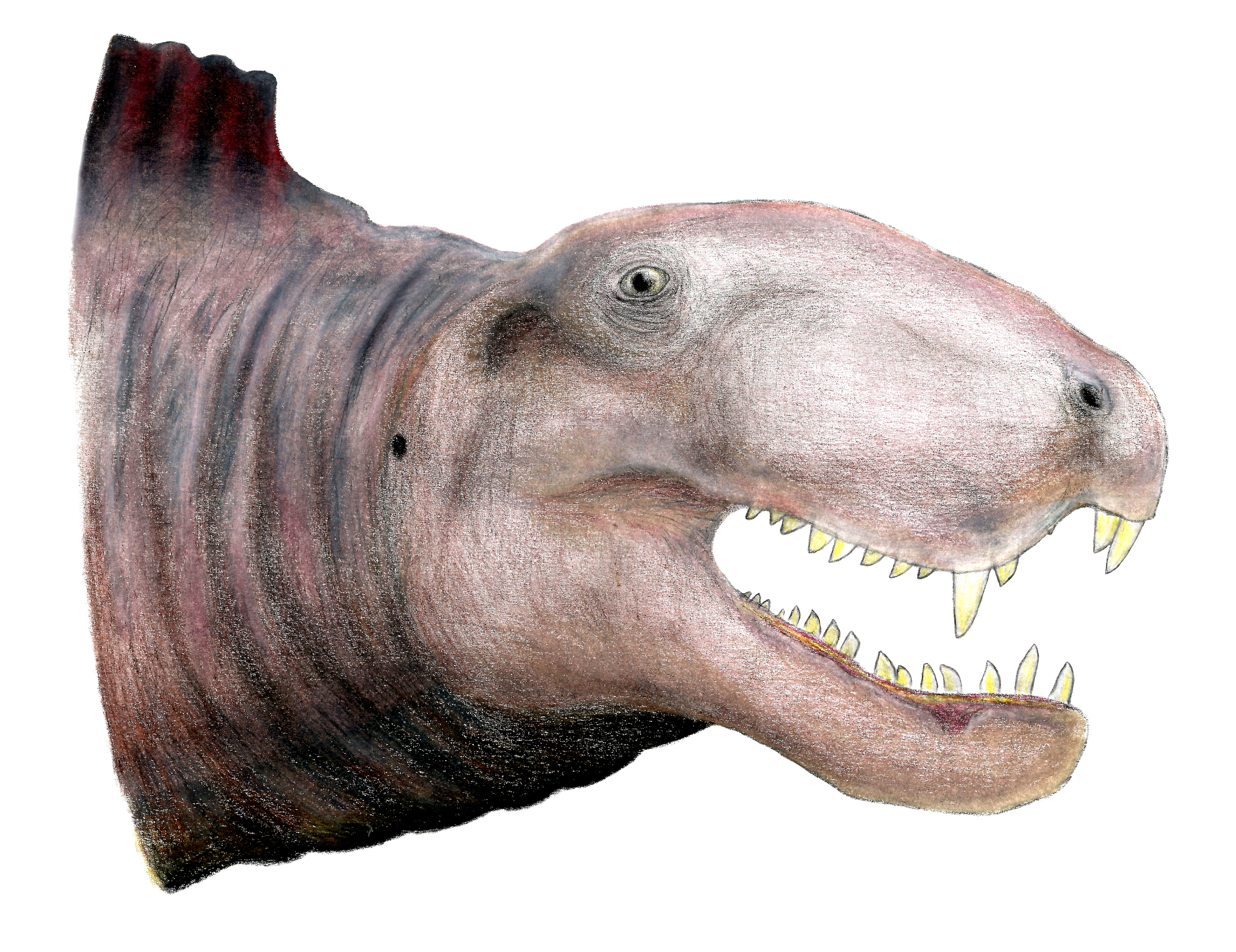 Restauration the Cryptovenator hirschbergeri